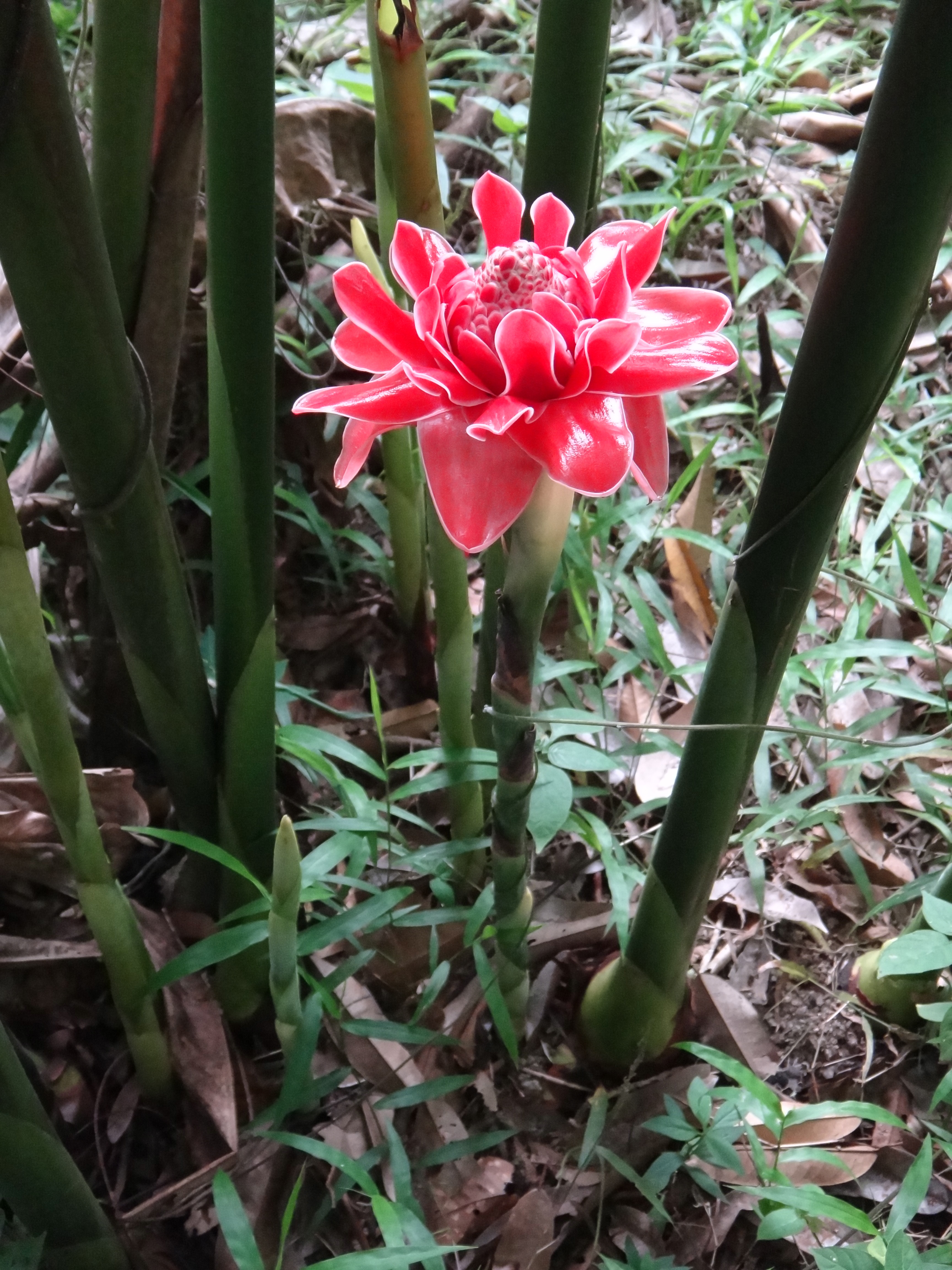 Etlingera elatior in full-bloom together with the full length of its stalk.